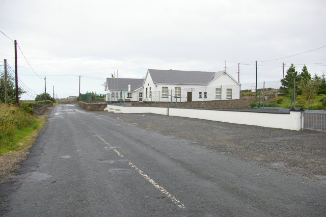 Loch an Iúir school The green and yellow County Donegal flag flies proudly at the school at Loch an Iúir.